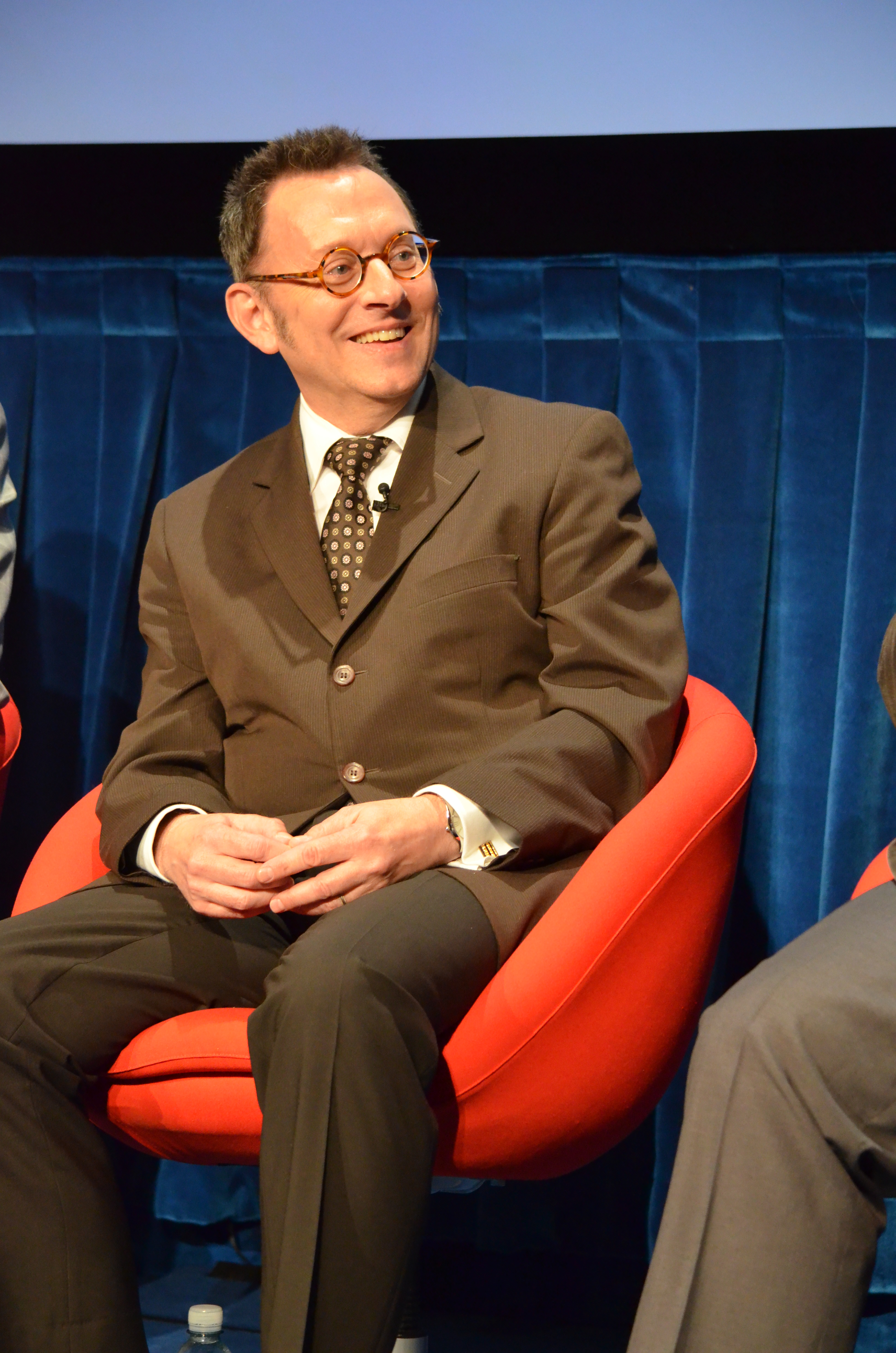 Onstage at Paley 2012: Person of Interest